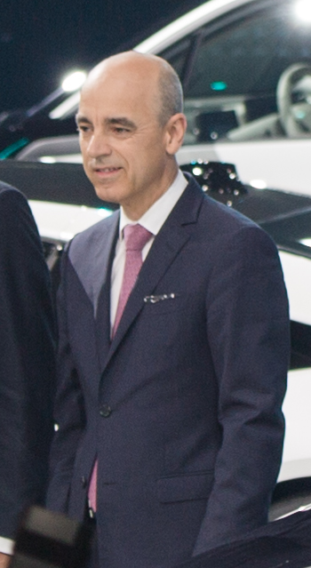 BMW press conference, IAA 2017